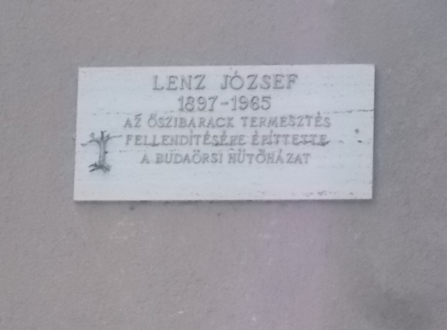 Budaörs railway station, Lenz plaque. - Raktár Street, Budaörs, Pest County.